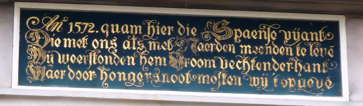 Inscription above the door of the Haarlem public library (building previously owned by the St. Adrian Civic Guard): "In 1572 quam hier de Spaense vyant Die met ons als met Naerden meenden te leve Wij weerstonden hem Vroom vechtender Hand Maer door hongersnoot mosten wij 't opgeve" Translation: In 1572 the Spanish enemy came here to treat us the same way as Naarden We withstood him, fighting bravely But from hunger we had to give up